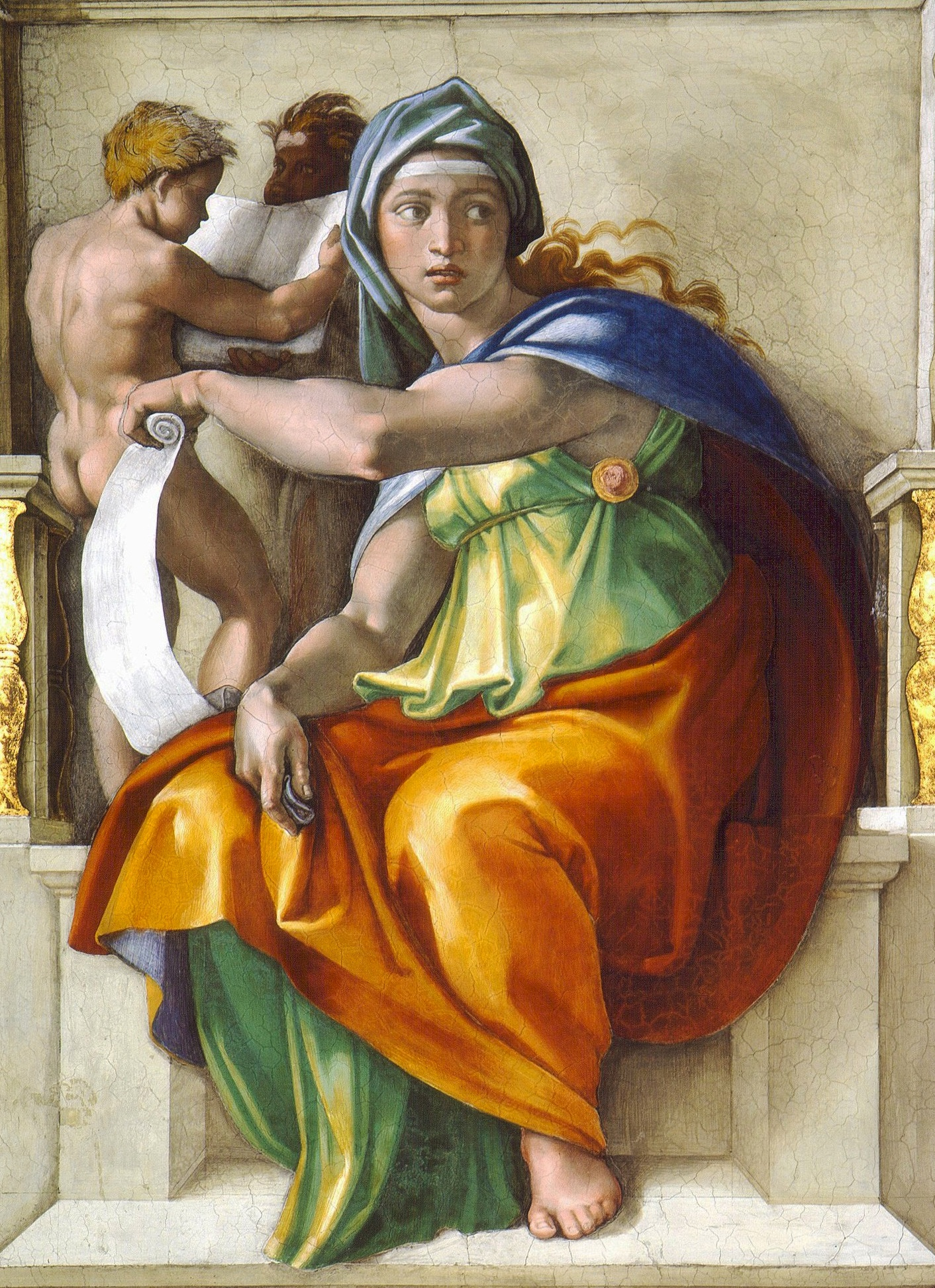 Delphic Sybil